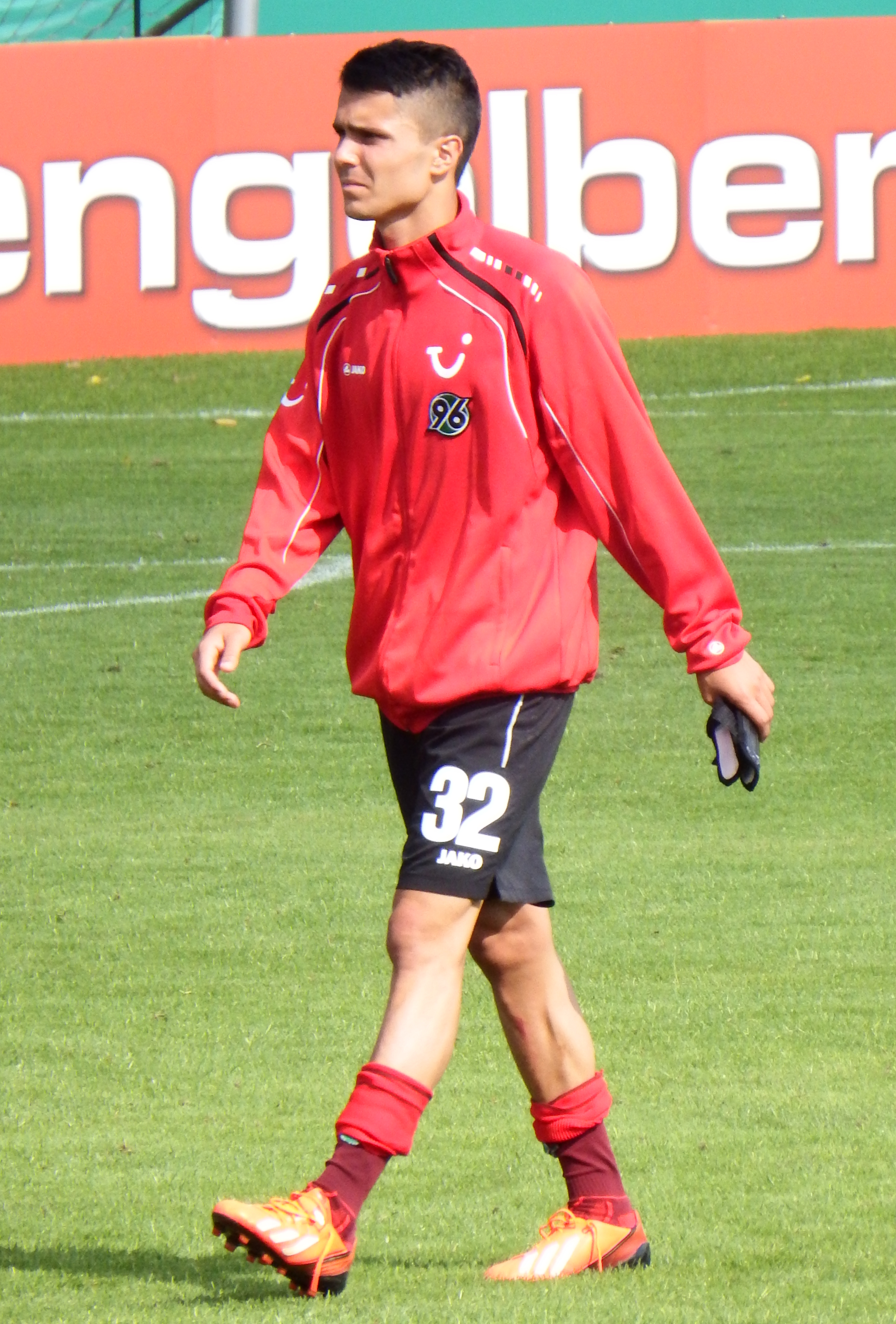 Leonardo Bittencourt as Player of Hannover 96